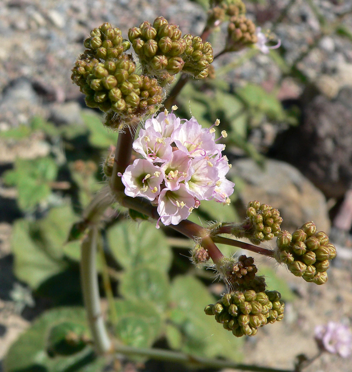 Anulocaulis annulatus in Furnace Creek Wash, Death Valley, California